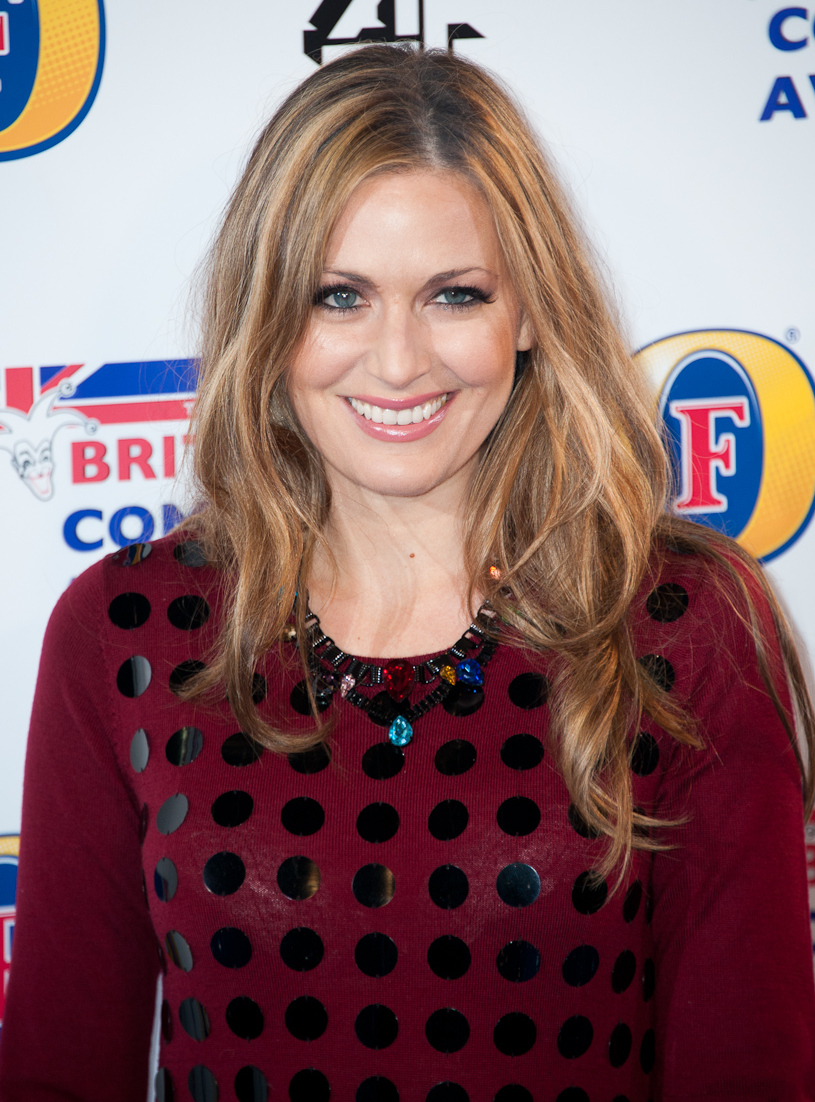 Olivia Lee at the 2013 British Comedy Awards, 12 December 2013